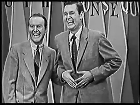 Came from YouTube, Bob Barker's 1st day on Truth or Consequences